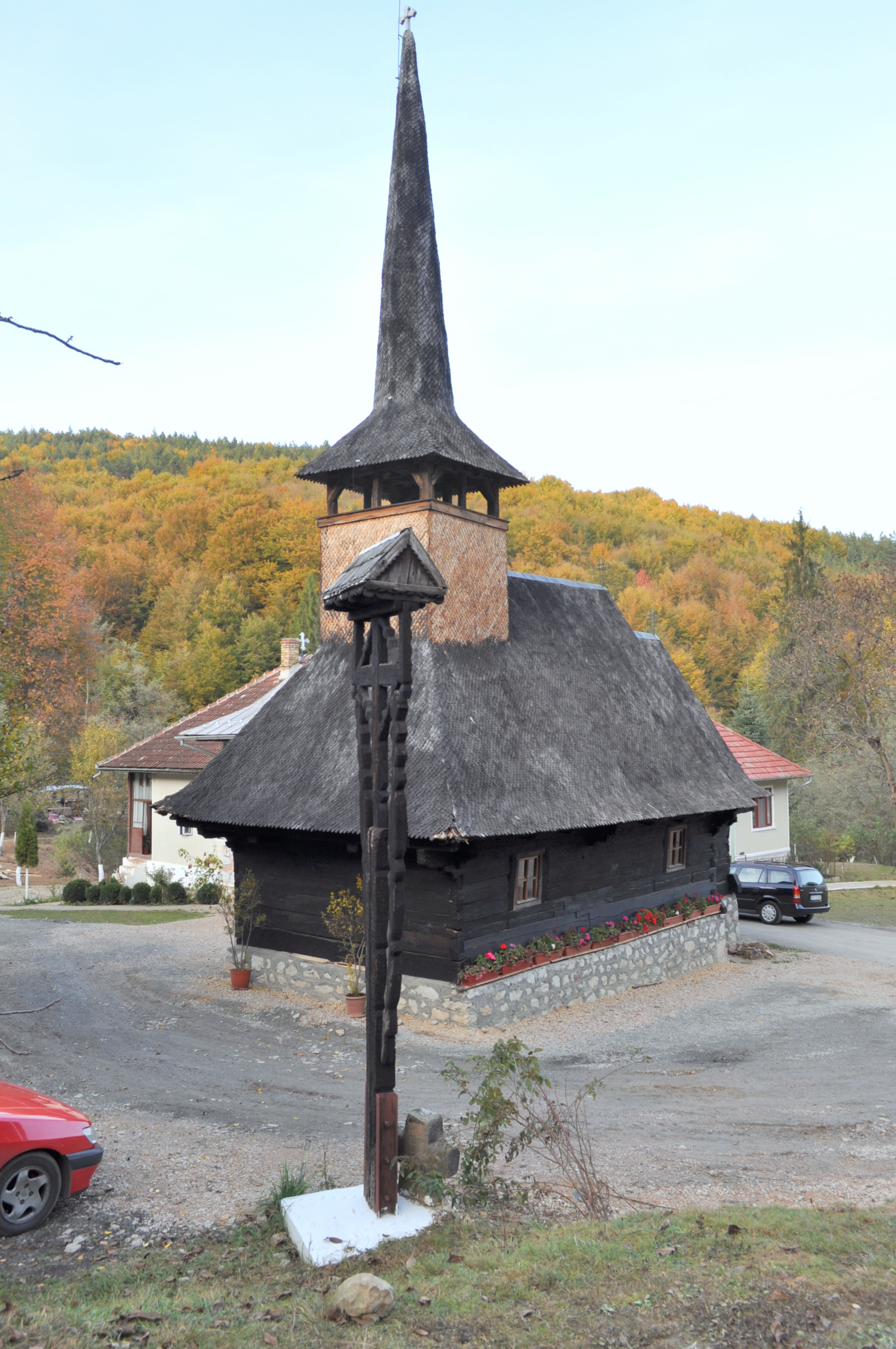 the Izbuc Orthodox monastery near Călugări village, Codru-Moma Mountains, Romania